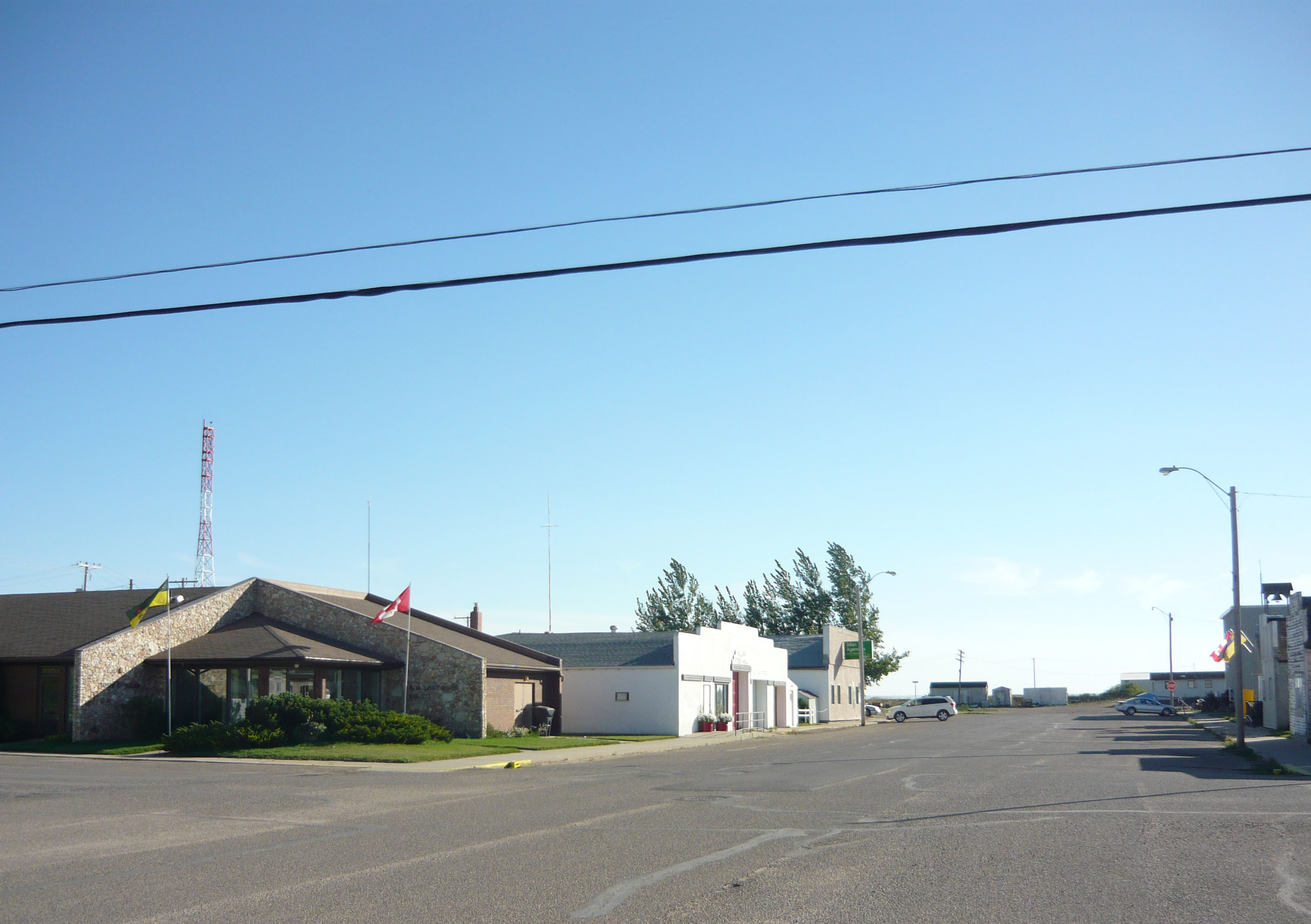 Main Street in Allan, Saskatchewan, Canada. The building in the foreground is the combined Town Office and Rural Municipality Office.